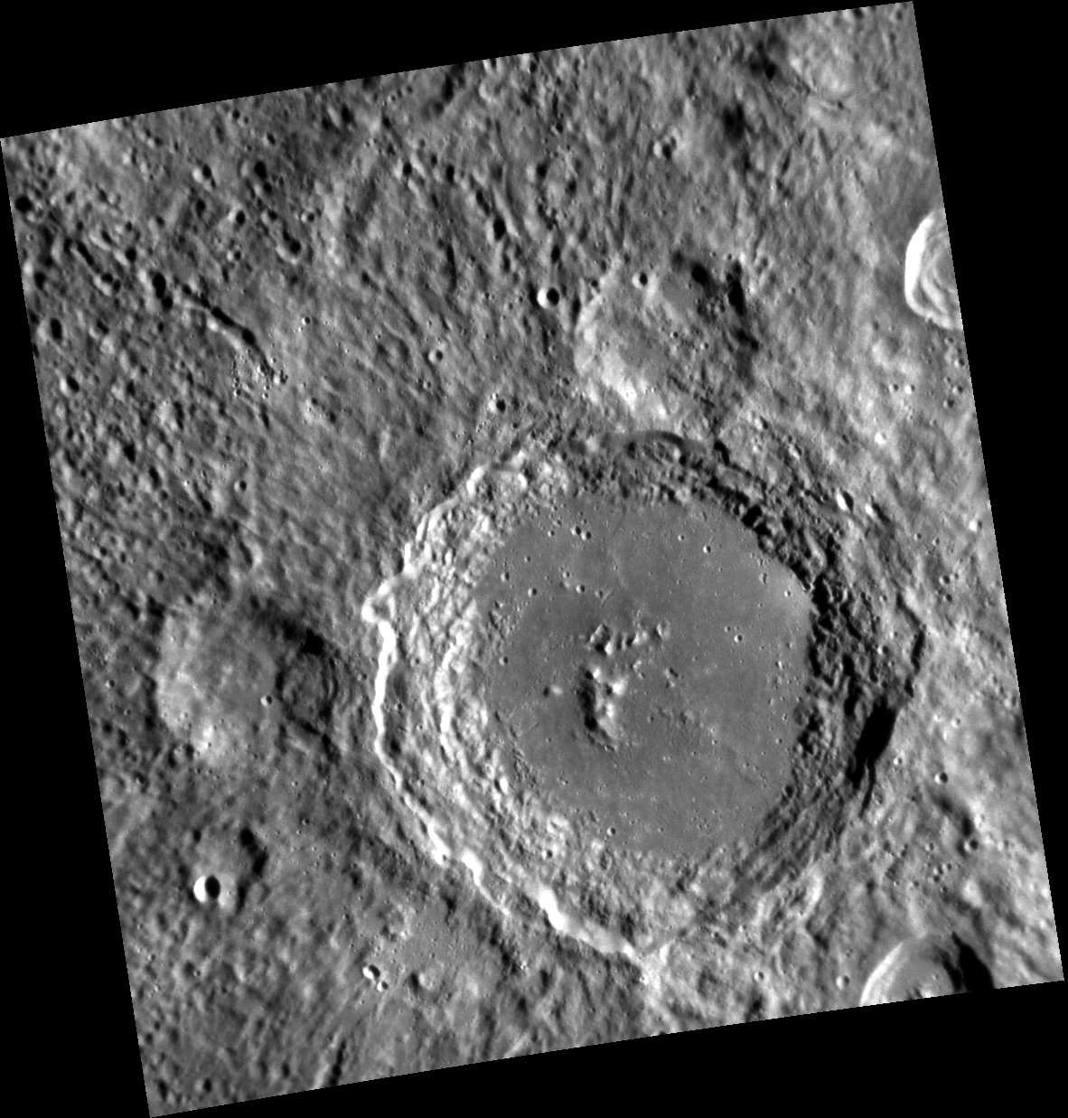 Mercury's Lennon crater, named for Beatle John Lennon, as seen from NASA's MESSENGER spacecraft.